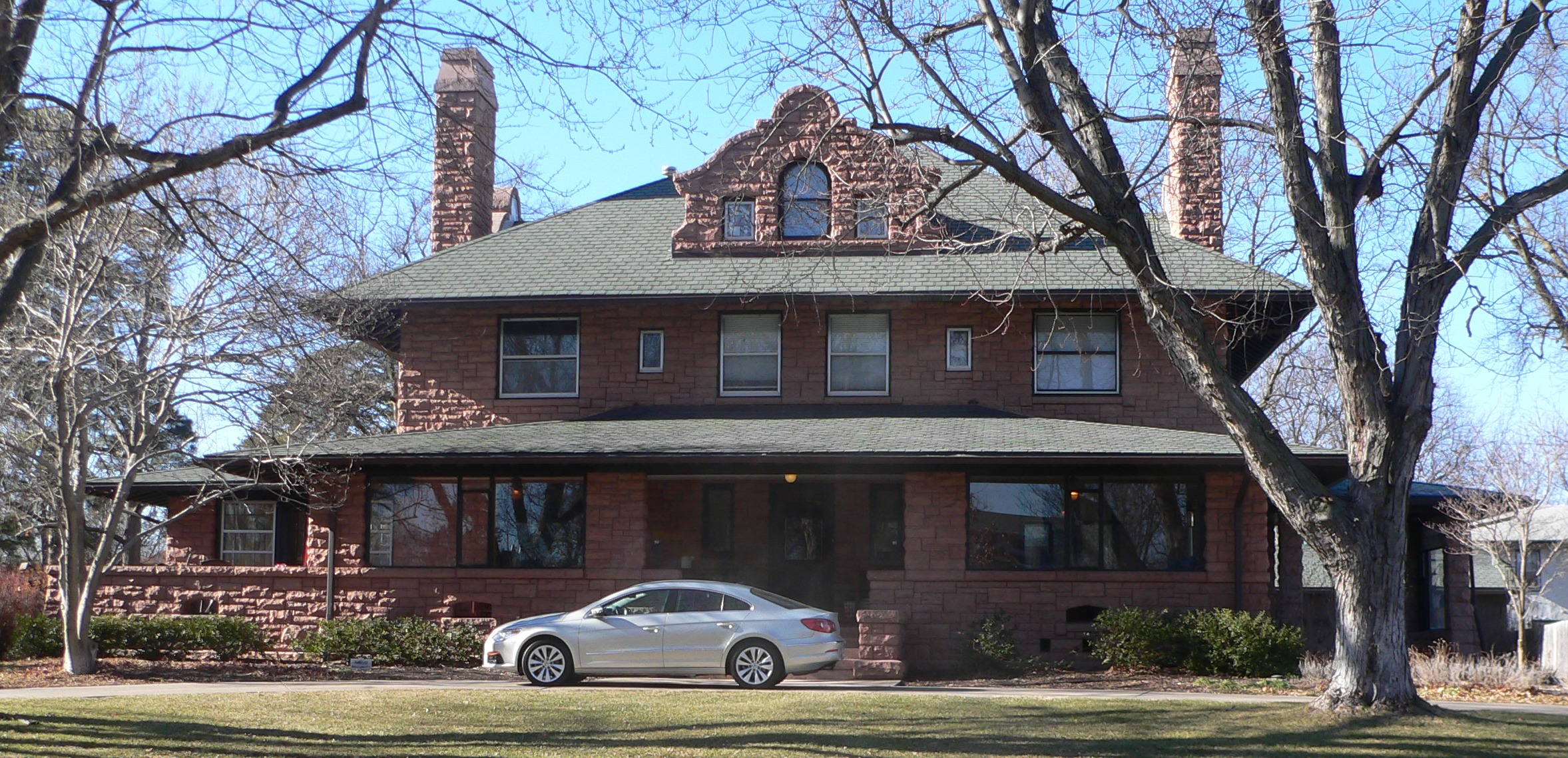 Frank M. Spalding house, located at 2221 Sheridan Boulevard in Lincoln, Nebraska; seen from the east.